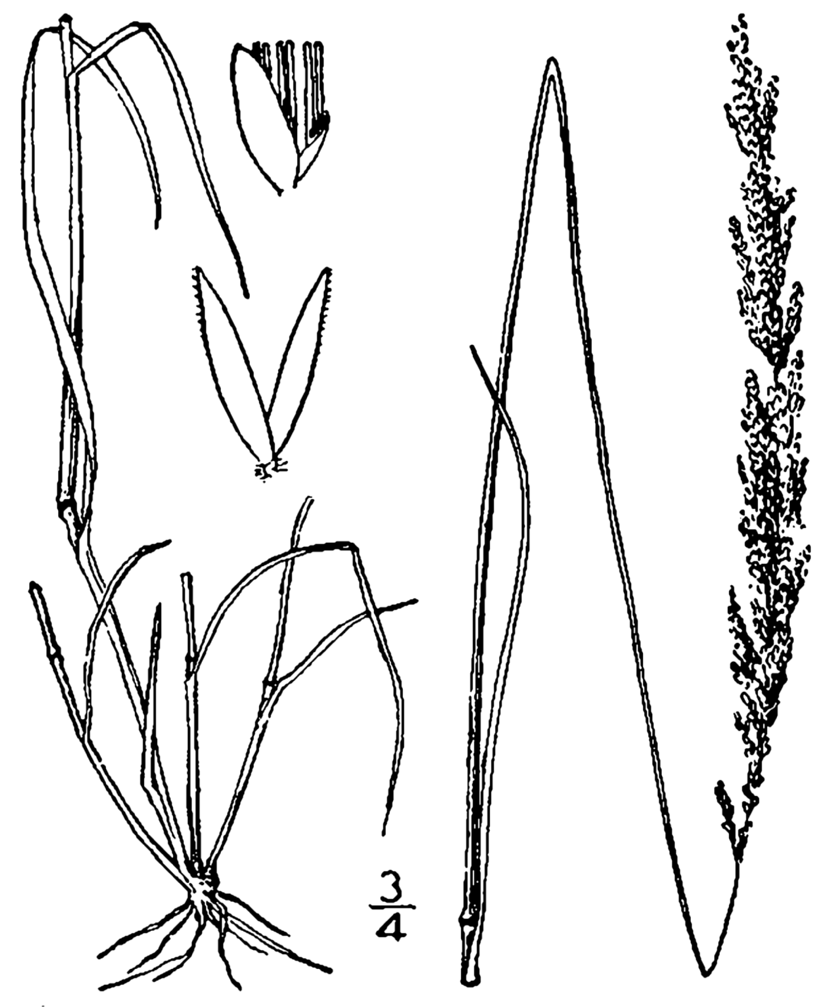 Creeping Bentgrass. Family Poaceae. Line drawing.